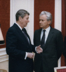 Ronald Reagan talking with Yuri Dubinin at the Soviet Embassy in Washington, D.C. on 11 December 1988, shortly after the 1988 Armenian earthquake. Left to right: Ronald Reagan, Yuri Dubinin.